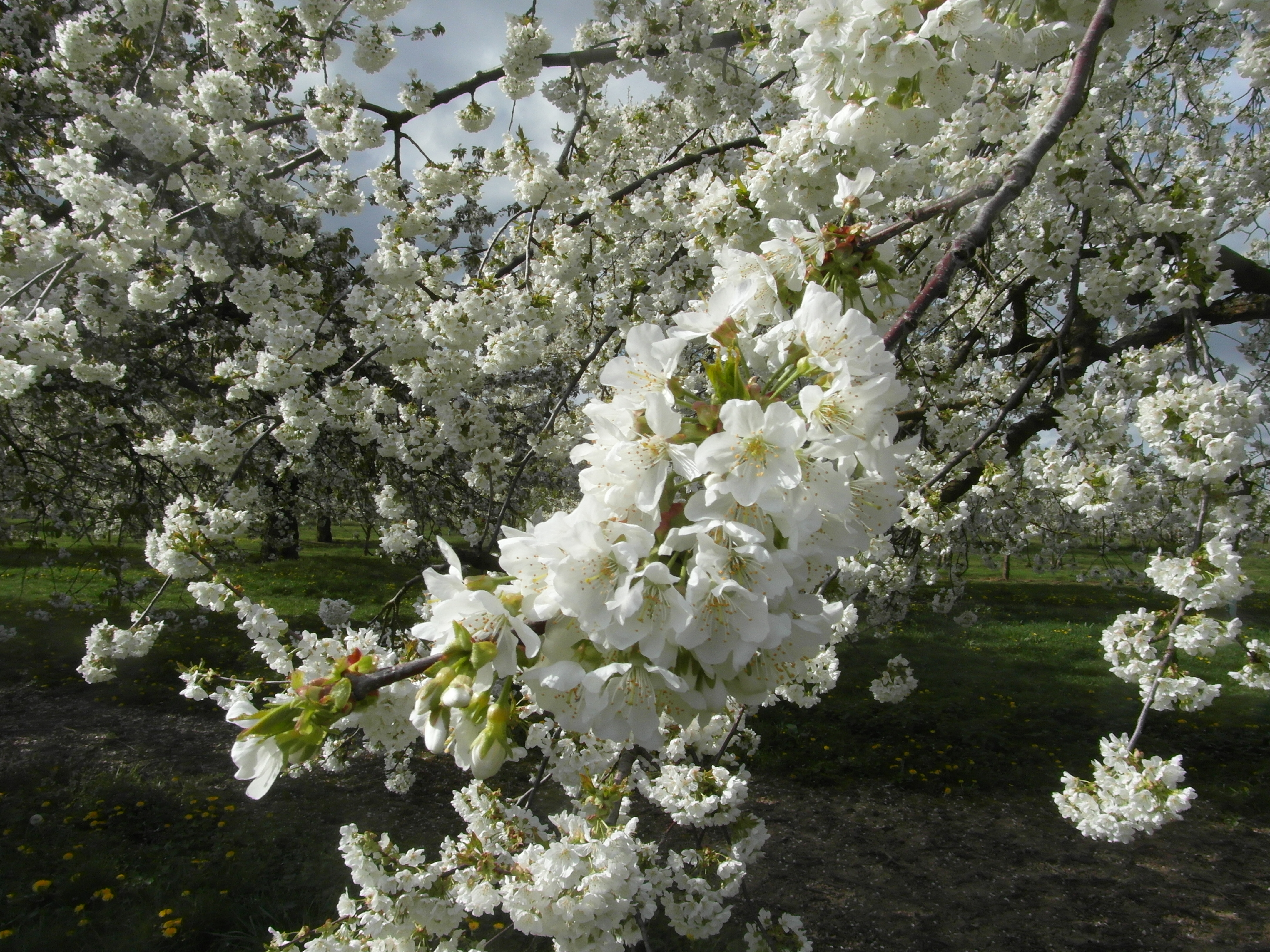 Cherry blossom in Frauenstein, a suburb of Wiesbaden, Germany, known for its cherries, in spring 2014